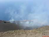 The Stromboli